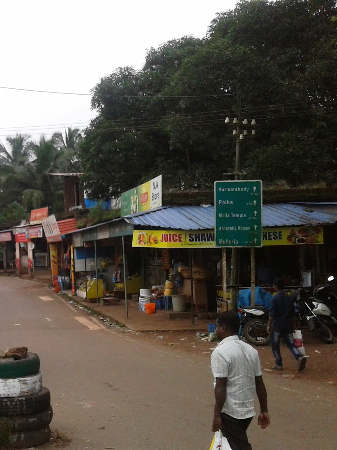 Badiadka, Kasaragod District, Kerala state, India. .